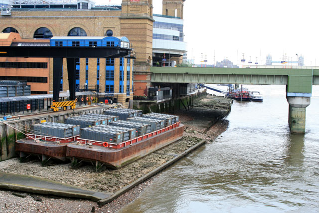 Thames Barges On the foreshore next to Cannon Street Station. From Southwark Bridge.